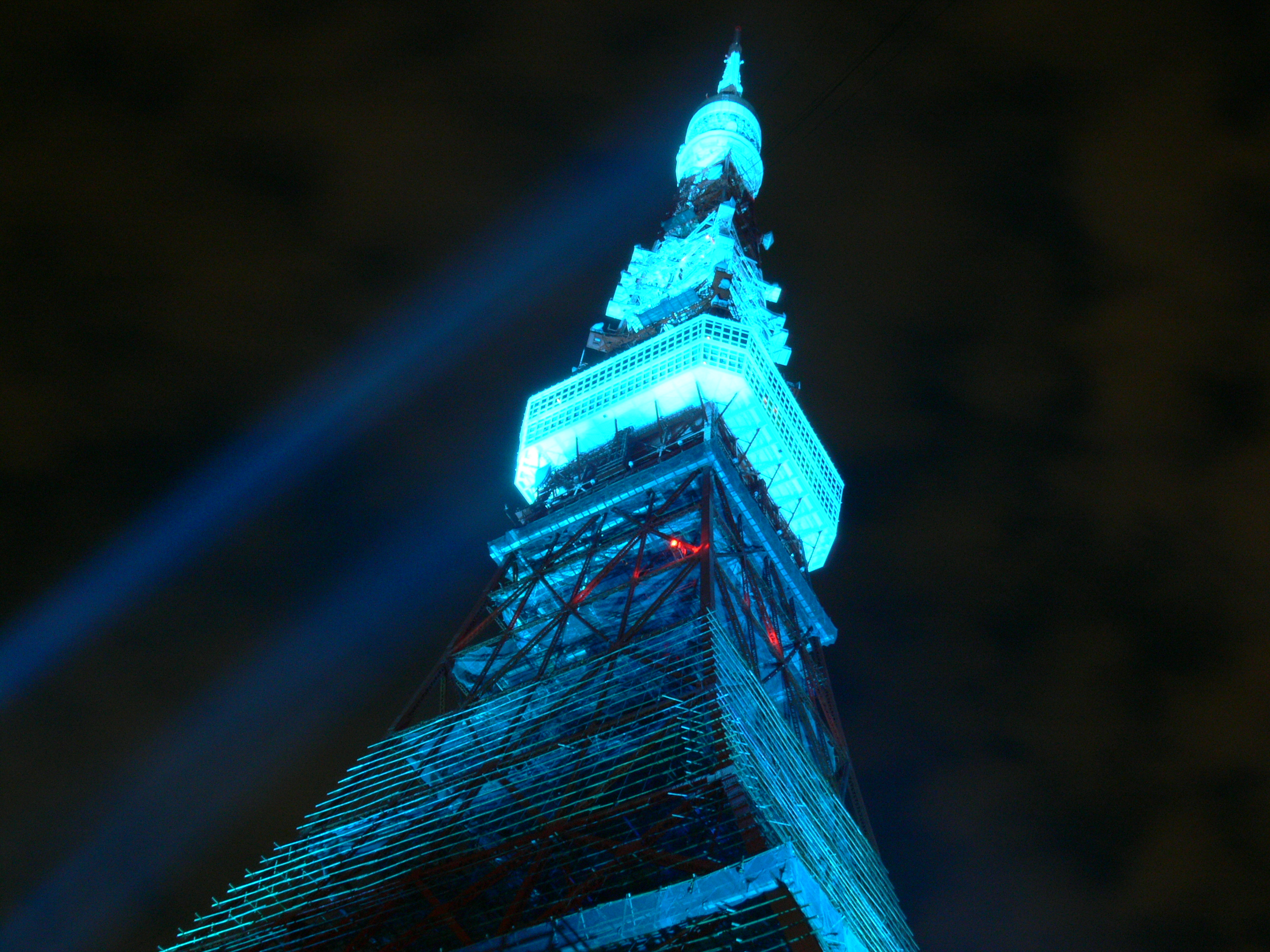 Tokyo Tower, lit up blue on world diabetes day